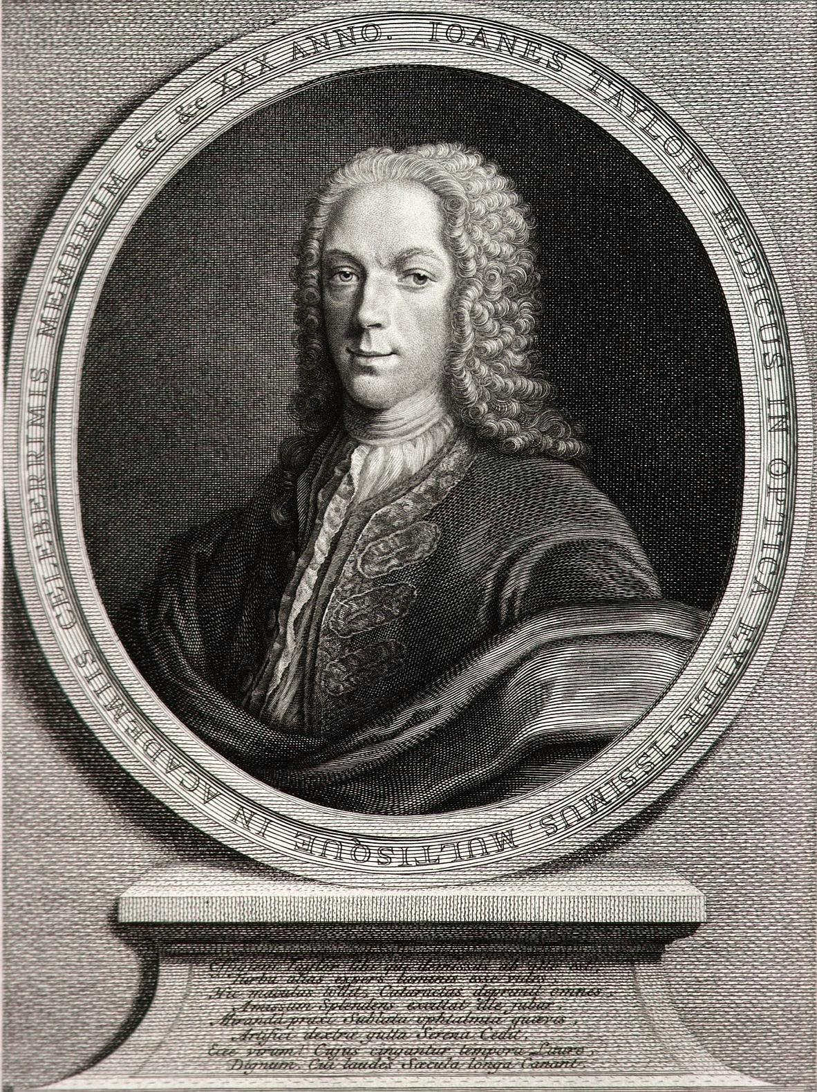 Portrait of John Taylor (1703-1770 or 1772).